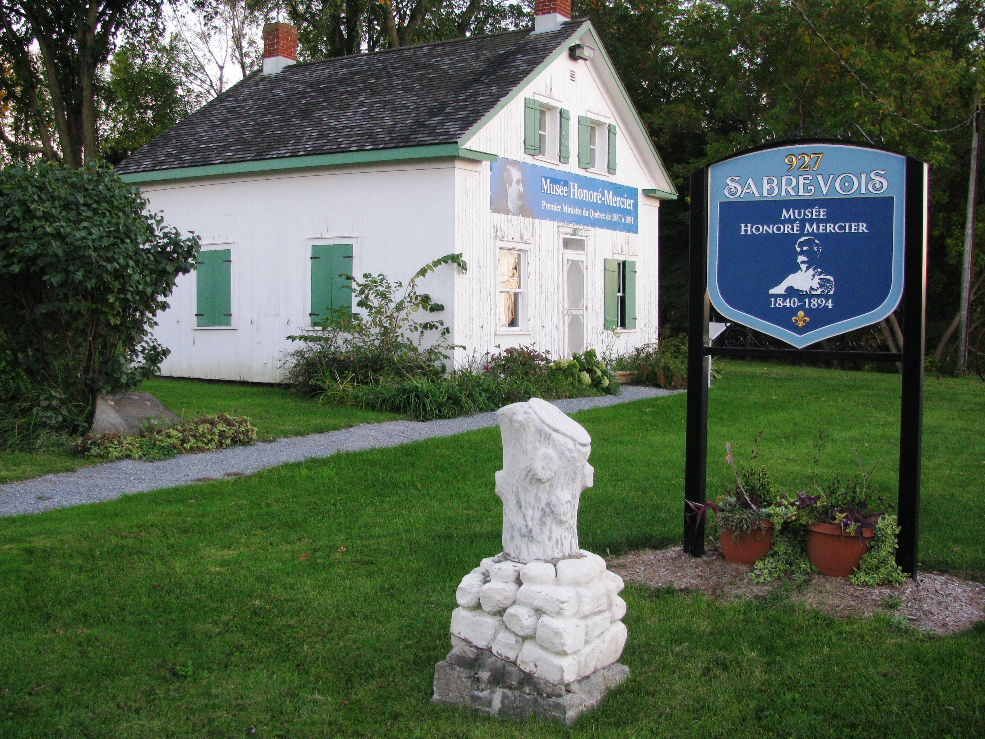 Birth place of Honoré Mercier (1840-1894) in the village of Sainte-Anne-de-Sabrevois. He was the Prime Minister of the Province of Quebec from 1887 to 1891.